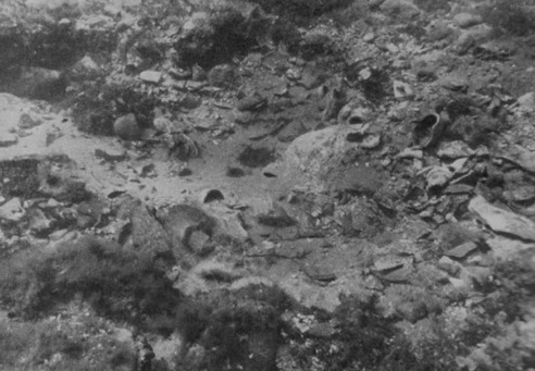 Elba wreck